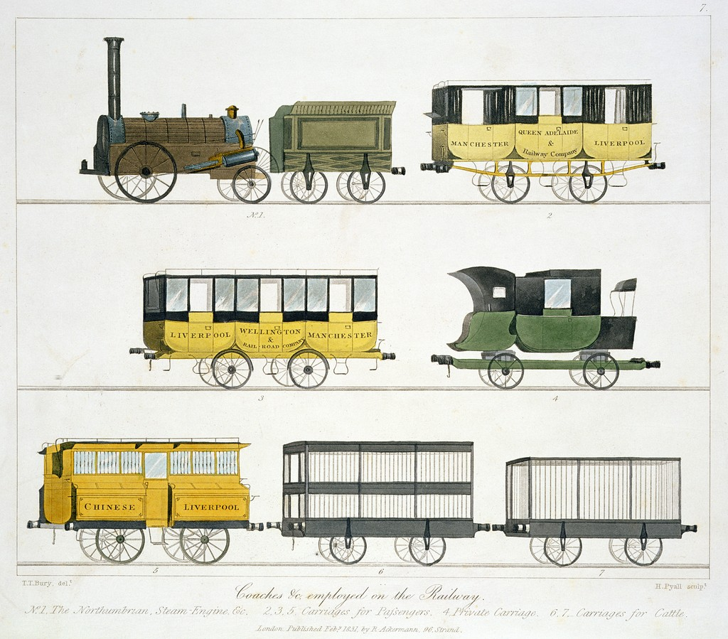 Rolling stock used at the start of the Liverpool and Manchester Railway. The legend below the plate reads: No.1. The Northumbrian, Steam Engine, &c. 2,3,5. Carriages for Passengers. 4. Private Carriage. 6,7. Carriages for Cattle. This was the final plate of the original set.